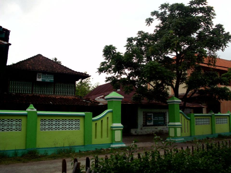 Pondok Pesantren Raudlatul Muta'alimin Margosari